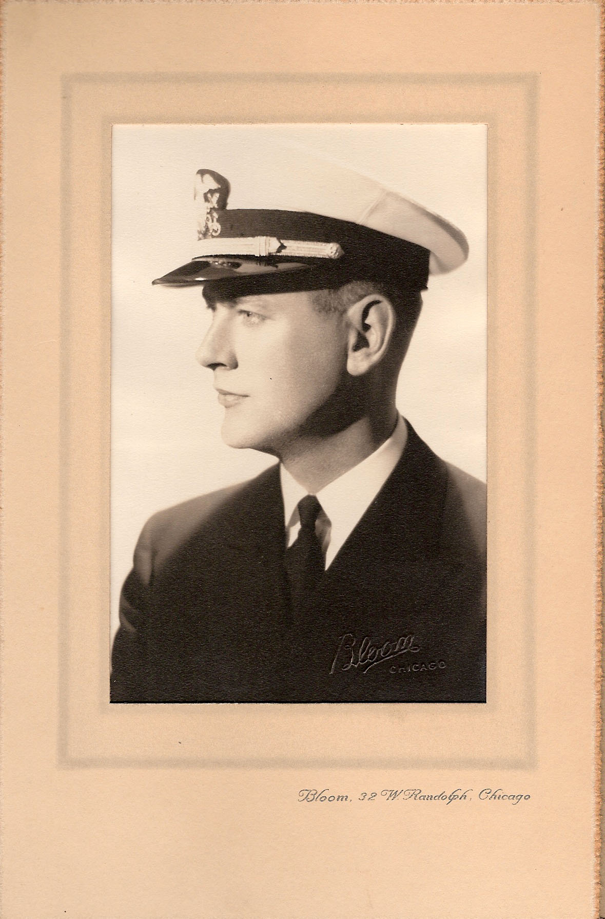 John Cartano, Naval Officer during World War II